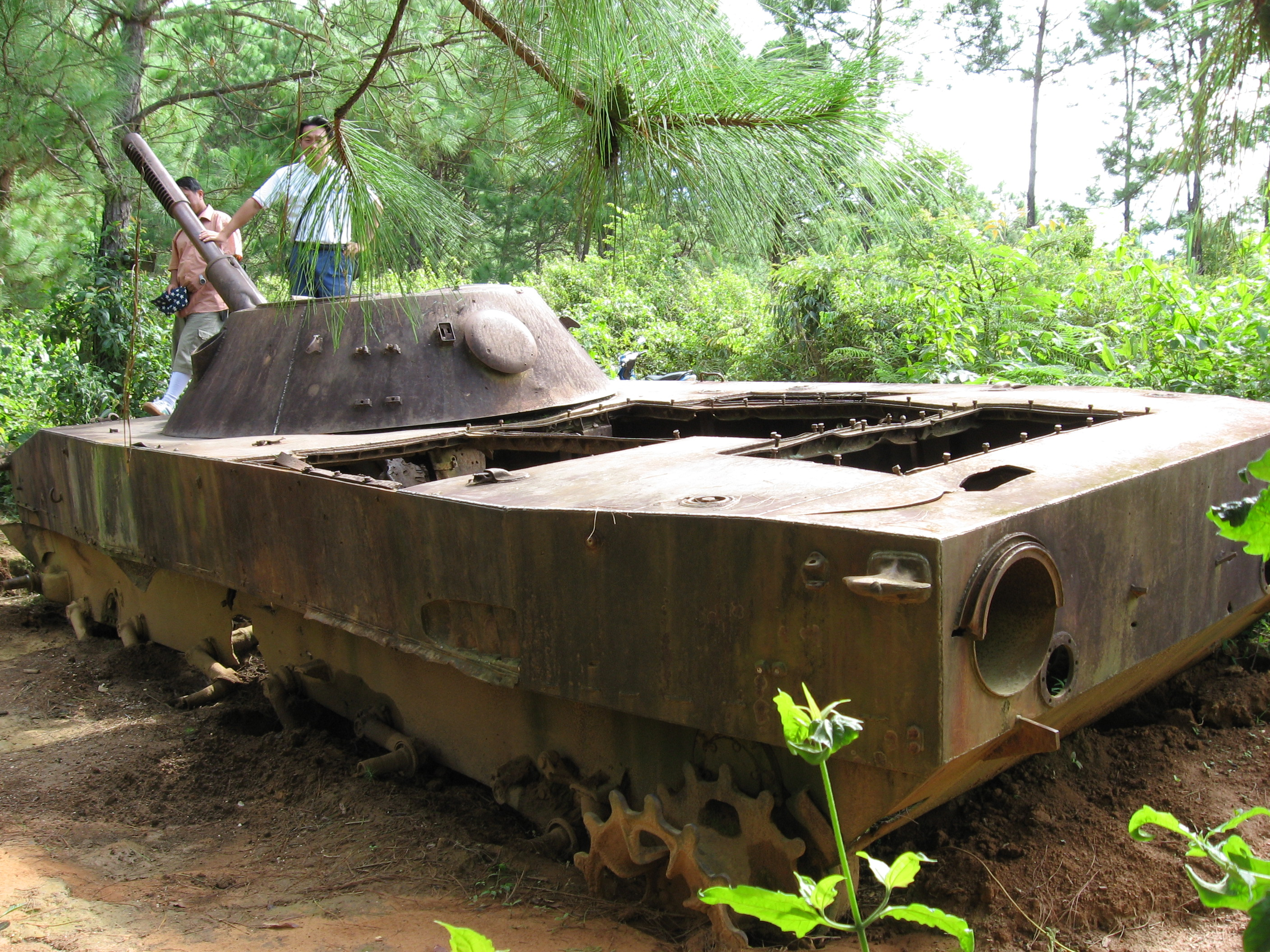 Wreck of a Russian tank PT-76 (early model with D-56T gun) from the Indochina Wars in Northern Laos